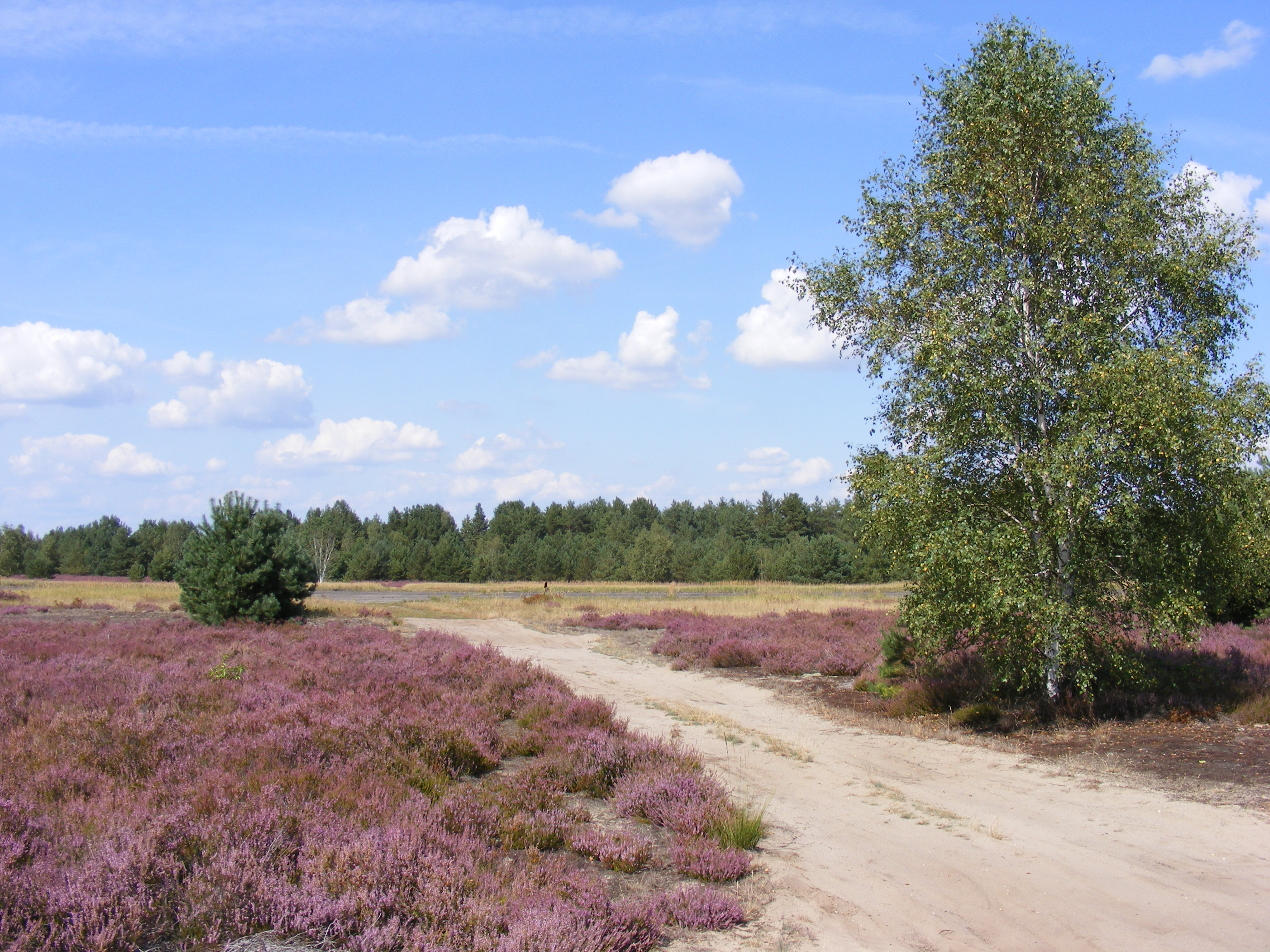 Former Sperenberg Aerodrome in Brandenburg, Germany. Landscape at southern runway.